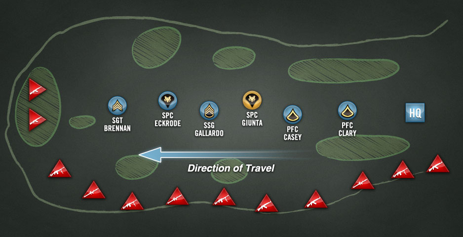 While moving along the ridge, the Paratroopers of 1st squad had no idea that the enemy had a classic L-shaped ambush waiting for them. Between 10 to 15 attackers had found a location that allowed them to set up a good distance from the Paratroopers, and which also allowed them to fire from behind cover and concealment. The enemy were armed with AK-47 assault rifles and some Rocket-Propelled Grenades (RPGs) and PKM machine guns.